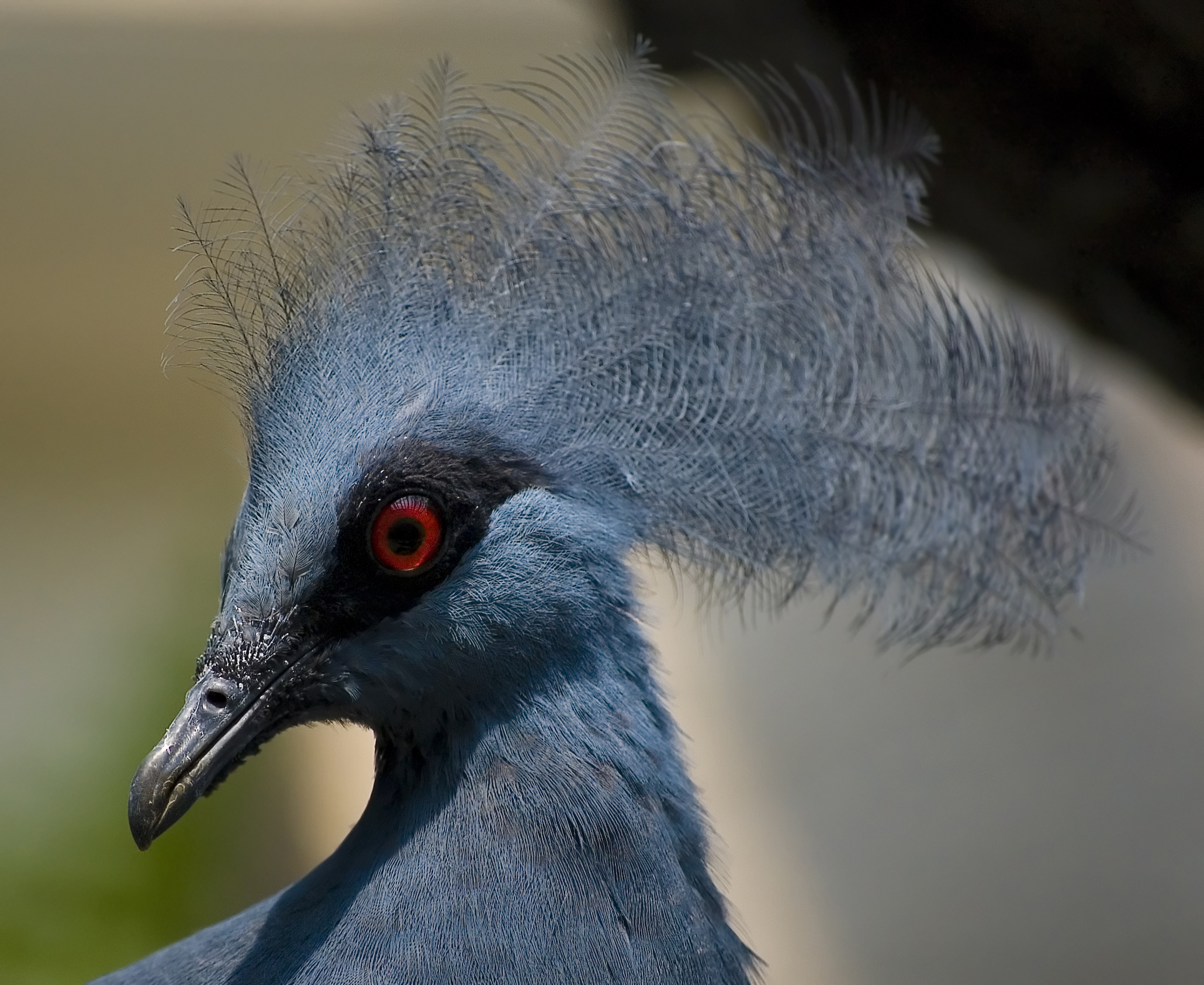 A Western Crowned Pigeon (Goura cristata).